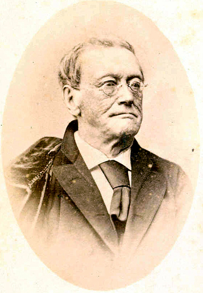 Photograph of José Ignacio de Márquez (7 September 1793 – 21 March 1880), President of Colombia.